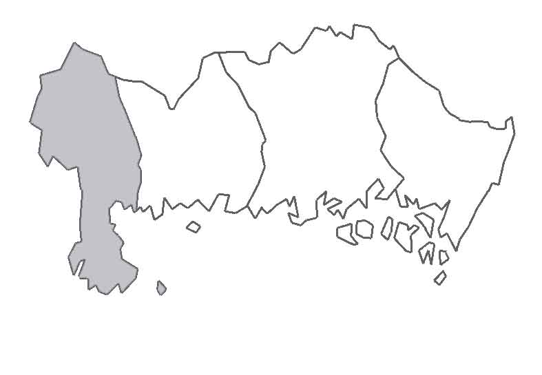 Map describing the location of Lister Hundred in Blekinge county, Sweden.